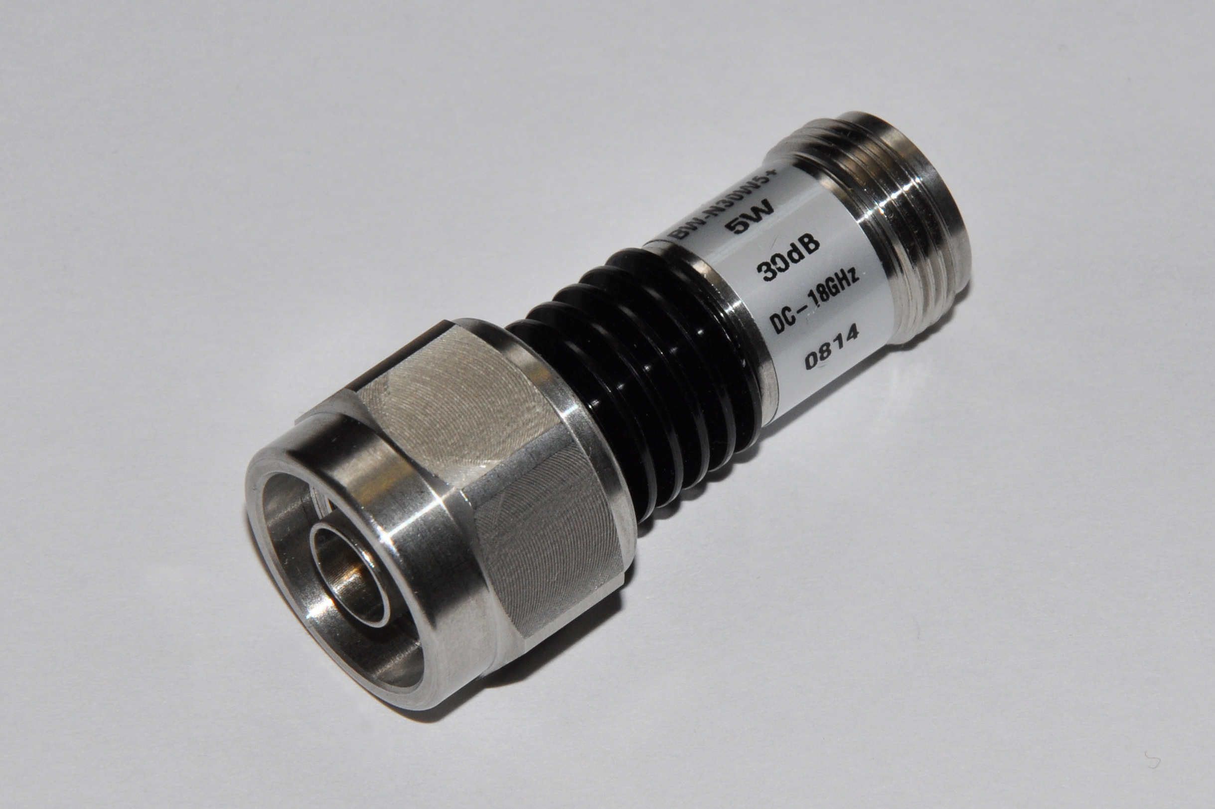 A 30dB, 5W, DC-18GHz RF power attenuator.